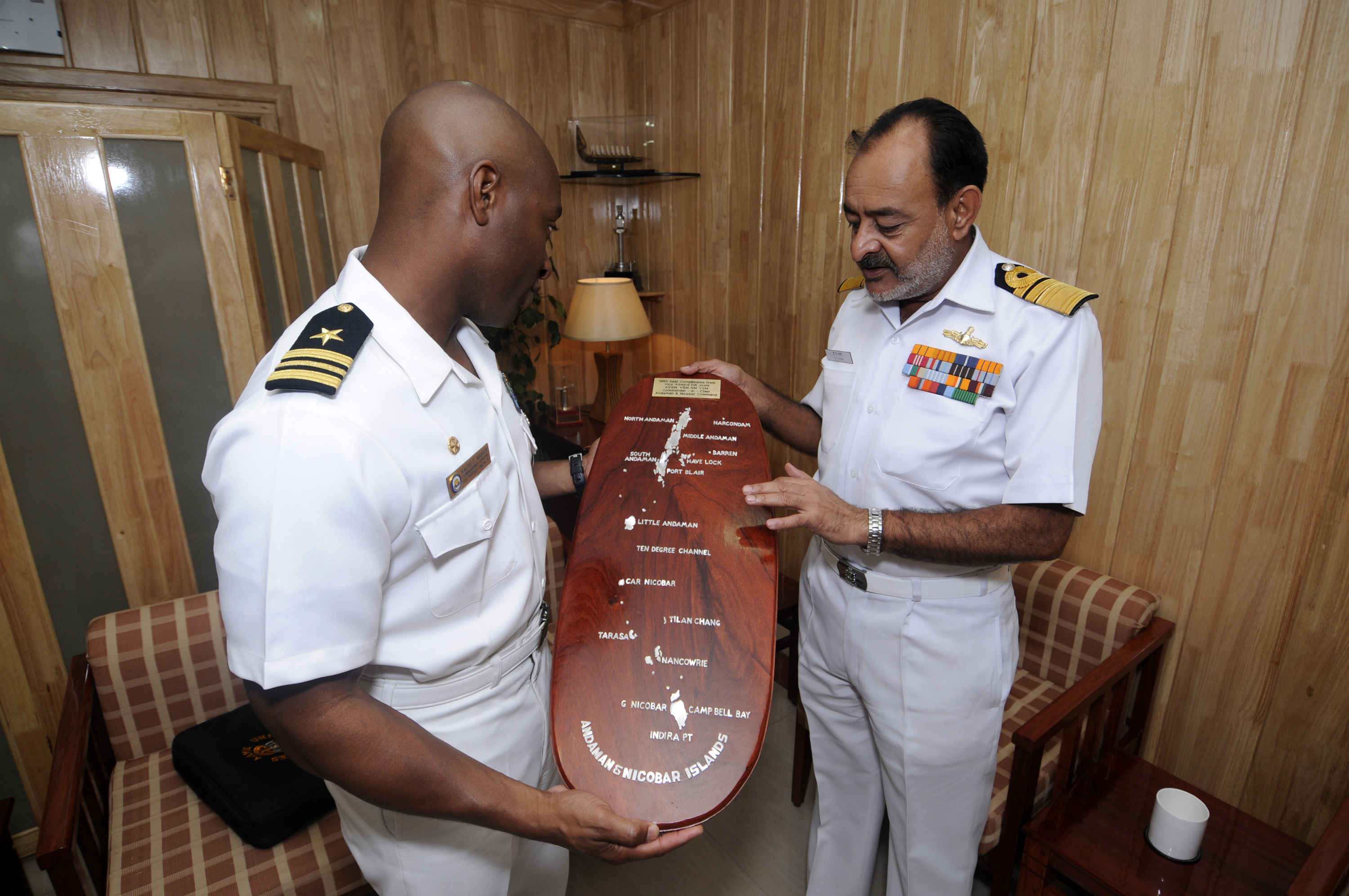 Indian navy Vice Adm. D. K. Joshi, right, commander-in-chief of Andaman and Nicobar command, presents a wooden plaque depicting the Andaman islands to U.S. Navy Lt, Cmdr. Walter Mainor, commanding officer of the mine countermeasures ship USS Patriot (MCM 7) during a visit to Joshi's office in Port Blair, India, March 23, 2010. The plaque is made of local Padauk wood which was also used for a lot of the furniture in Buckingham palace is made of Padauk. Patriot will be training with the Indian navy during her visit to Port Blair. (U.S. Navy photo by Mass Communication Specialist 1st Class Richard Doolin/Released) Photographer's Name: MC1 Richard DoolinLocation: Port Blair